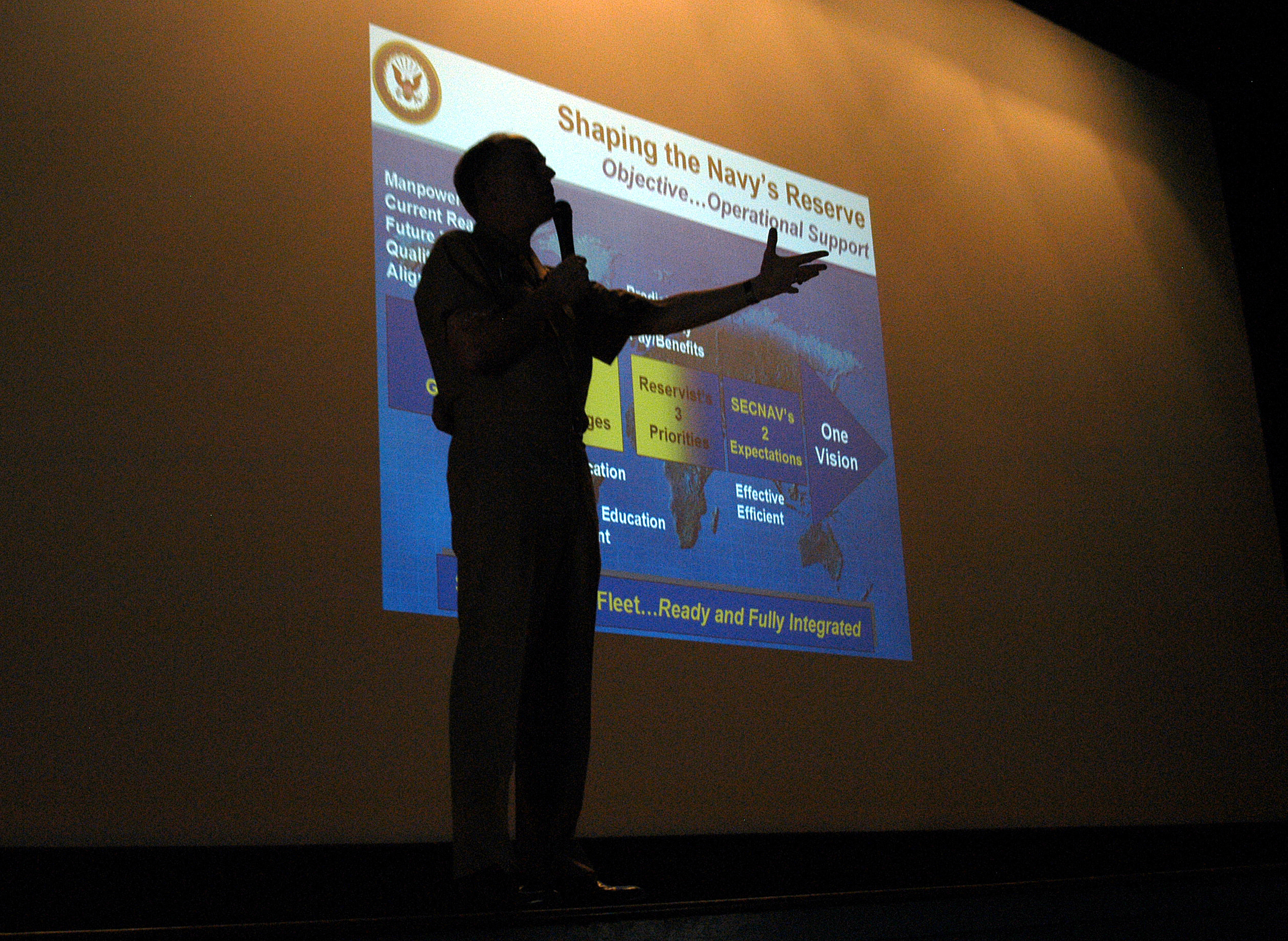 San Diego, Calif. (Jun. 5, 2004) - Commander Naval Reserve Force, Vice Adm. John G. Cotton, is silhouetted in front of a Powerpoint slide mapping out the Naval Reserve Force's future. Cotton spoke with hundreds of reservists at Naval Station North Island's theater during an All-Hands call and outlined the Chief of Naval Operations' (CNO) "One Navy" view on what lies ahead for the 88,000 Naval Reserve Force Sailors. U.S. Navy photo by Journalist 1st Class Greg Cleghorne (RELEASED)